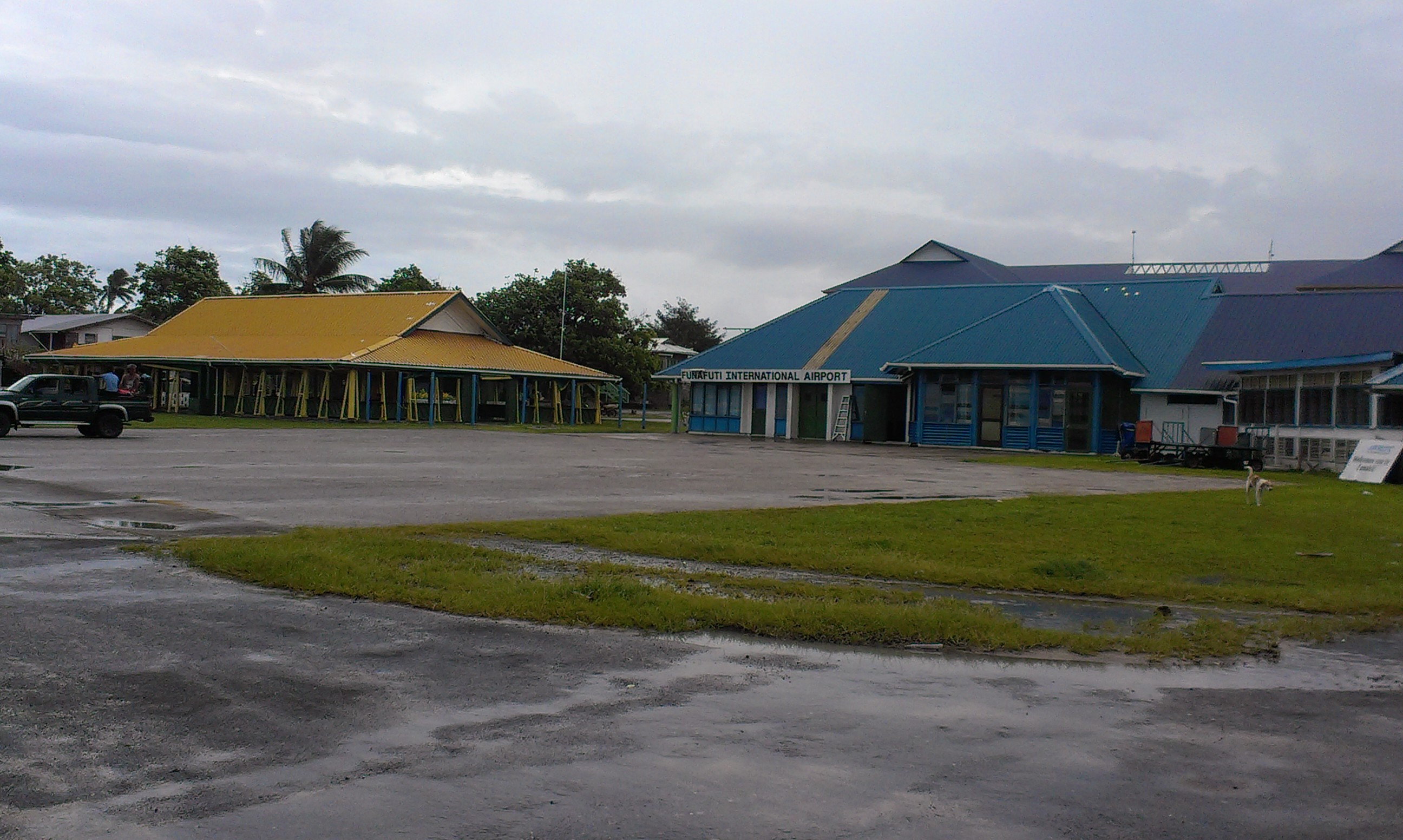 On the left (yellow roof) we have a maneapa, and on the right is the Funafuti (FUN) airport terminal.